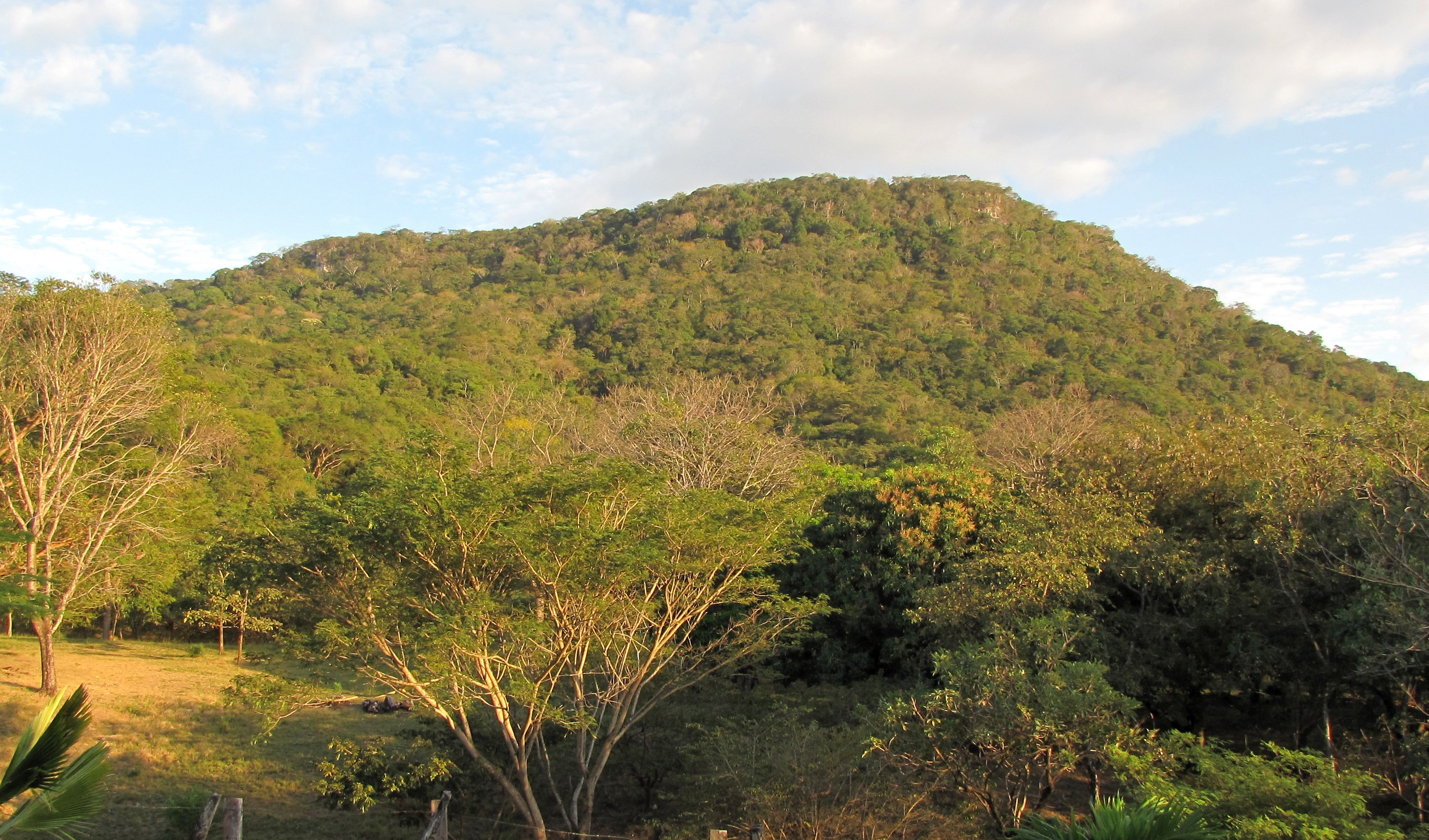 Mountain range of Barra Honda National Park, Costa Rica